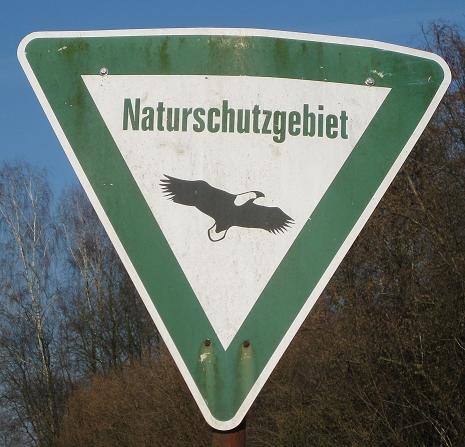 Nature reserve Versmolder Bruch near Versmold, signpost